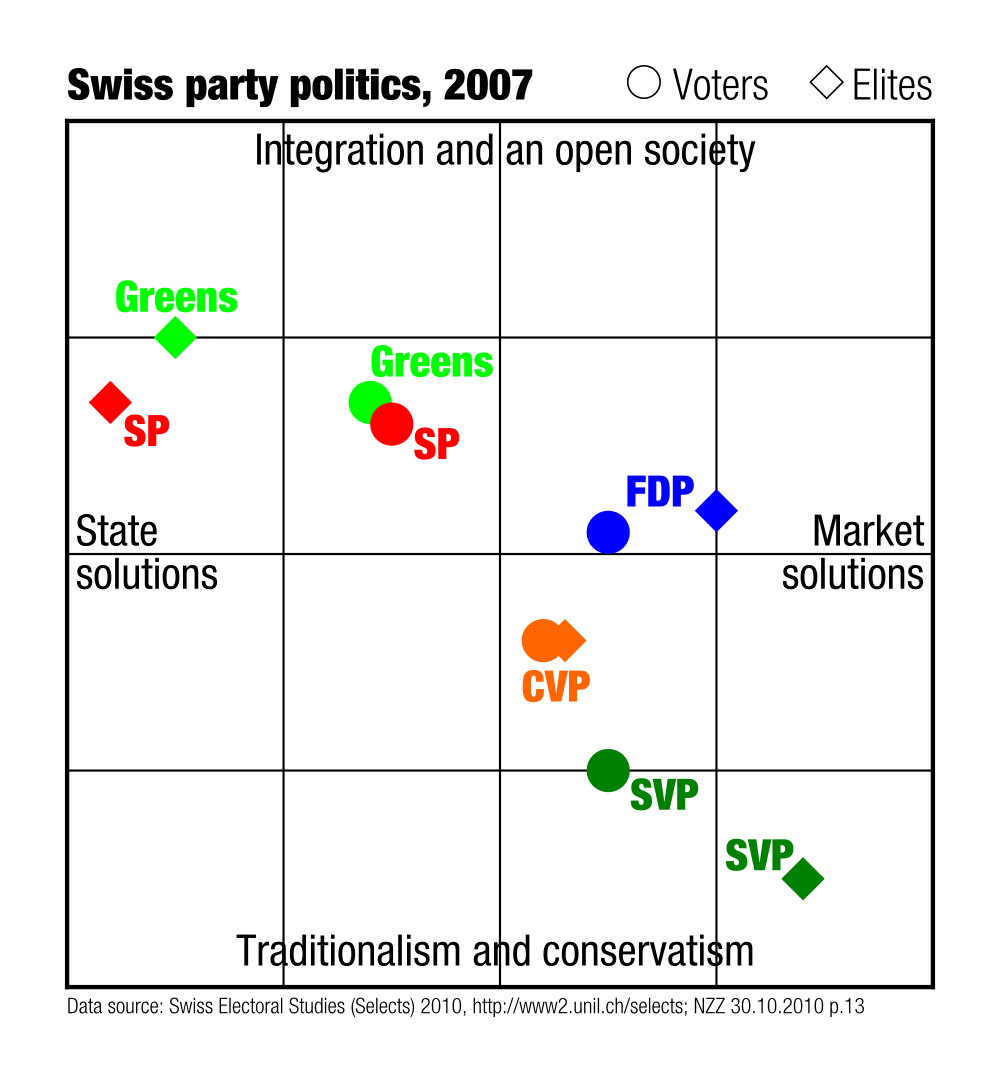 This graph shows the political positions of the major political parties of Switzerland. The data are from the 2007 general election. The positions of voters and of party elites (elected officials) are shown separately. The data is based on research by Philipp Leimgruber (University of Bern), Dominik Hangartner (Washington University) and Lucas Leemann (Columbia University), as part of the University of Lausanne's Swiss Electoral Studies (Selects), as published in Comparing Candidates and Citizens in the Ideological Space, Swiss Political Science Review 16(3) pp. 499-531(33). The graphical representation of the data is based on a graphic published in the Neue Zürcher Zeitung of 30 October 2010, p.13.